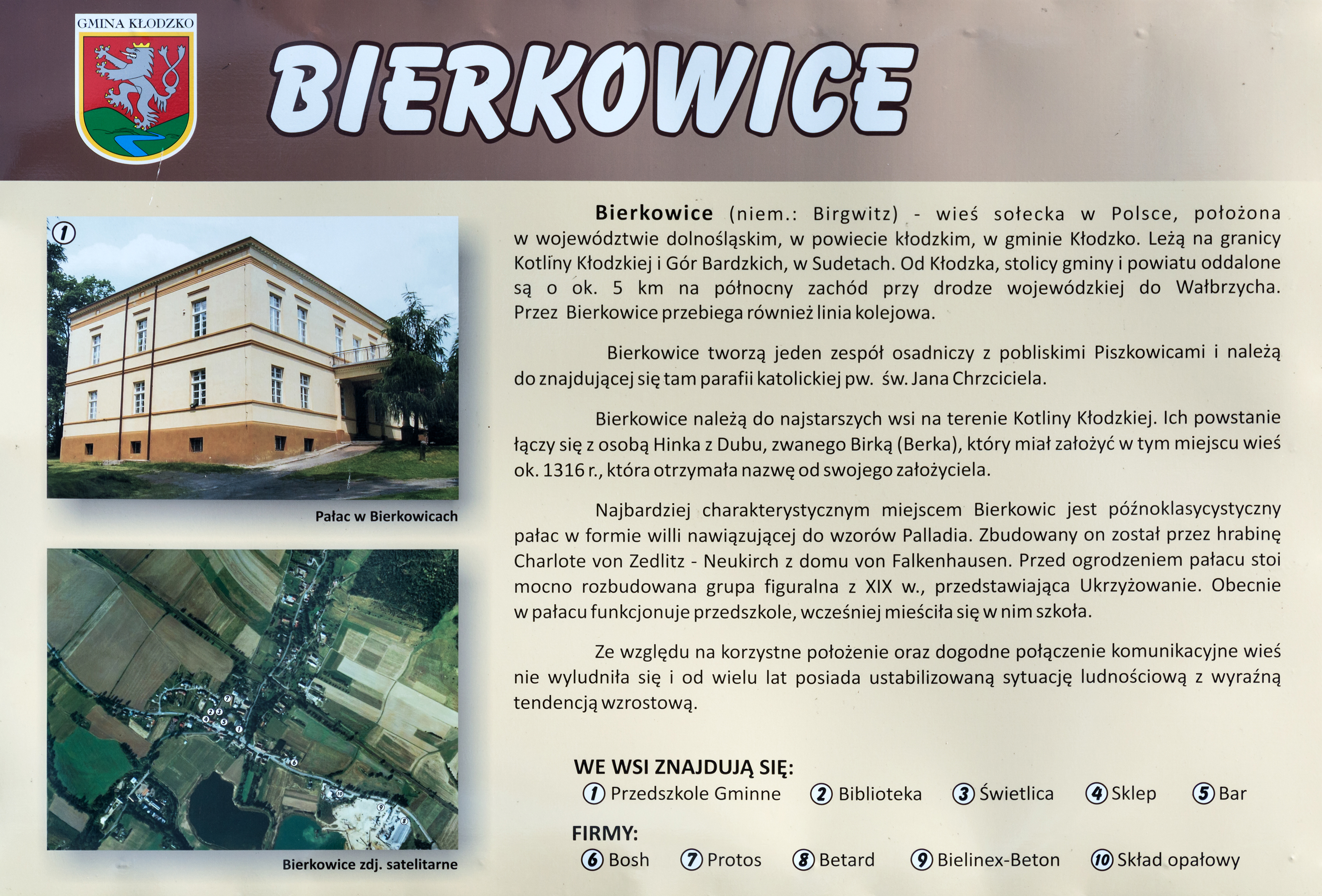 Information board in Bierkowice